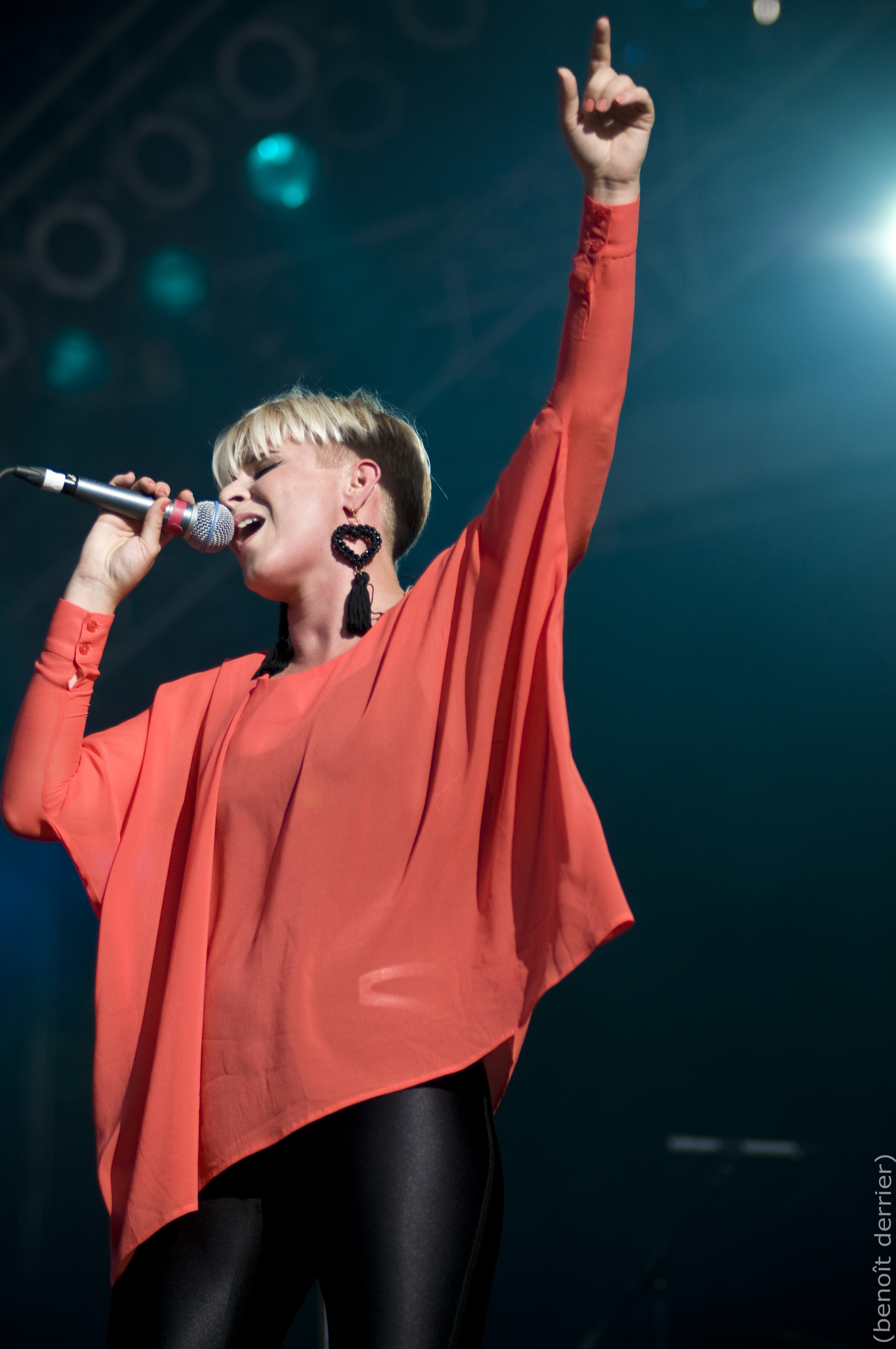 Robyn at Way Out West 2009, Göteborg, 14th august 2009.